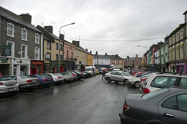 Roscrea main street A typical mid-Ireland market town now choked with cars. The colourful shop fronts just about cheer up a wet Friday morning.